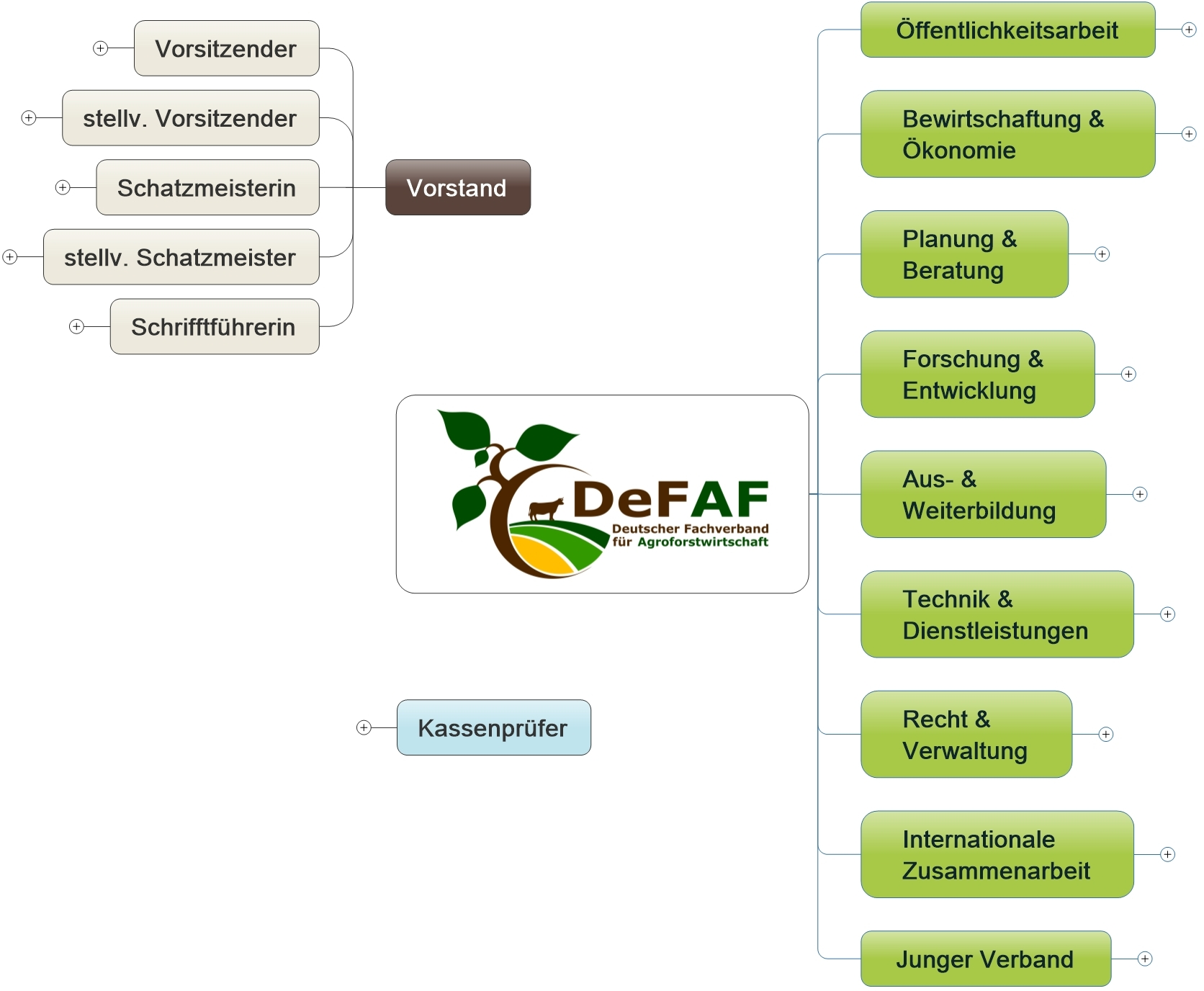 organigram of the German Association for Agroforestry (DeFAF) - non-for-profit registered association - stated July 31, 2020